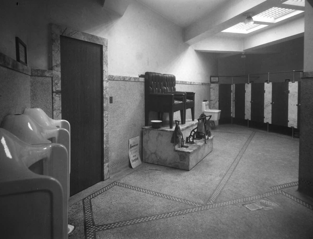 This underground restroom was demolished and filled in 1964. Item 30694 , Don Sherwood Parks History Collection (Record Series 5801-01), Seattle Municipal Archives .